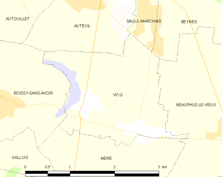 Map of French municipality Vicq